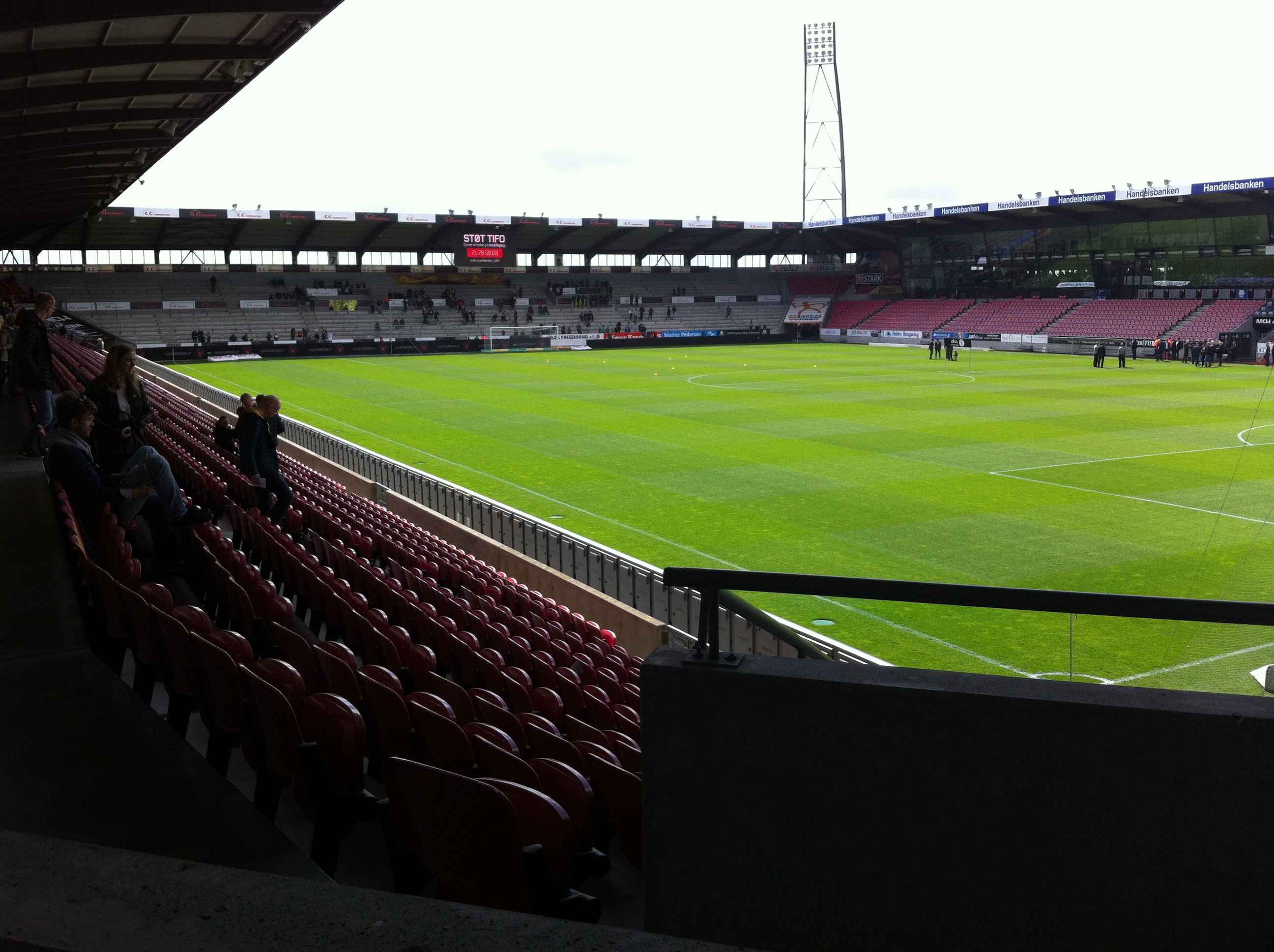 The photo was taken before danish champions FC Midtjylland's last game against SønderjyskE, on 7th of june 2015